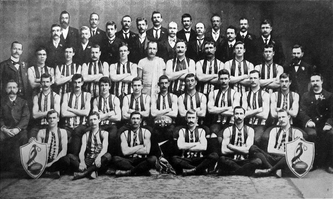 The Collingwood team and their premiers shields